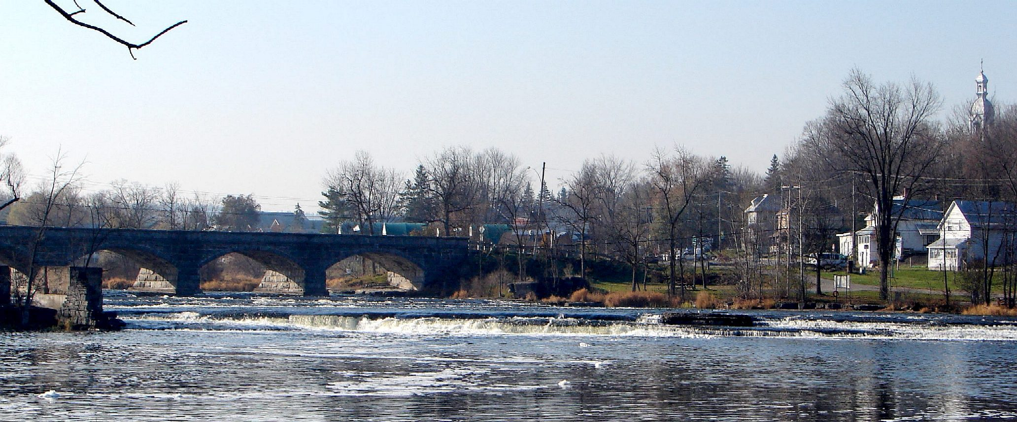 5-Arch stone bridge over the Mississippi River at Pakenham (part of Town of Mississippi Mills), Ontario, Canada